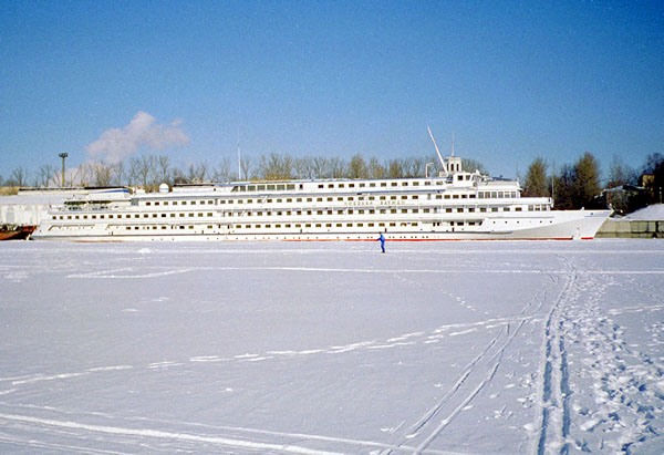 Nikolay Bauman (Knyazhna Anastasiya) Project 302 Moscow 2000